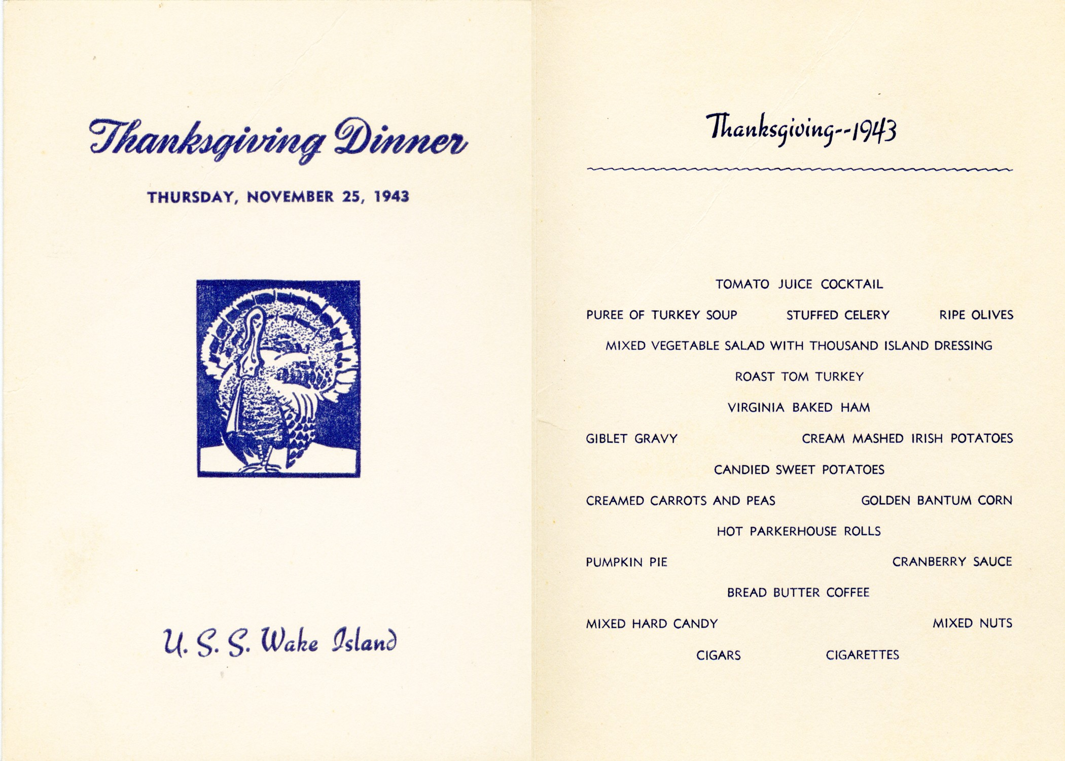 Naval Historical Center, Washington, D.C. (File photo) Holiday dinners on ship and shore are important memories for past and present Sailors of special times away from home with their shipmates. The Navy Department Library has more than 100 historic holiday menus in its collection, and an exhibit of some them is in its reference section. One on exhibit is this 1943 Thanksgiving Day dinner menu from USS Wake Island (CVE 65). The library is trying to collect holiday menus from all eras, including the present day. U.S. Navy photo. (RELEASED)